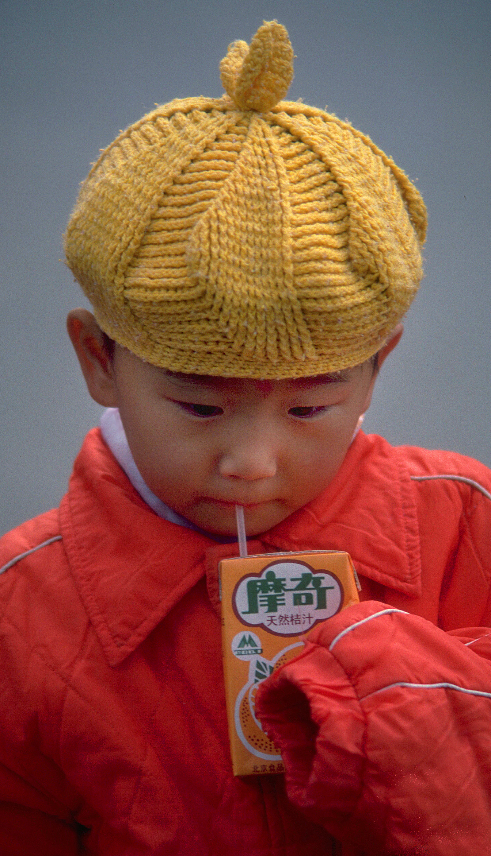 Beijing child drinking with straw from a juicebox, February 1988.